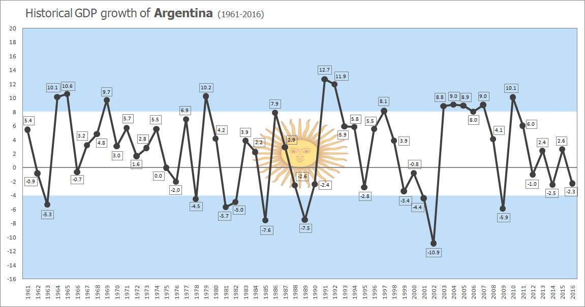 Historical growth of Argentina from 1961 to 2016